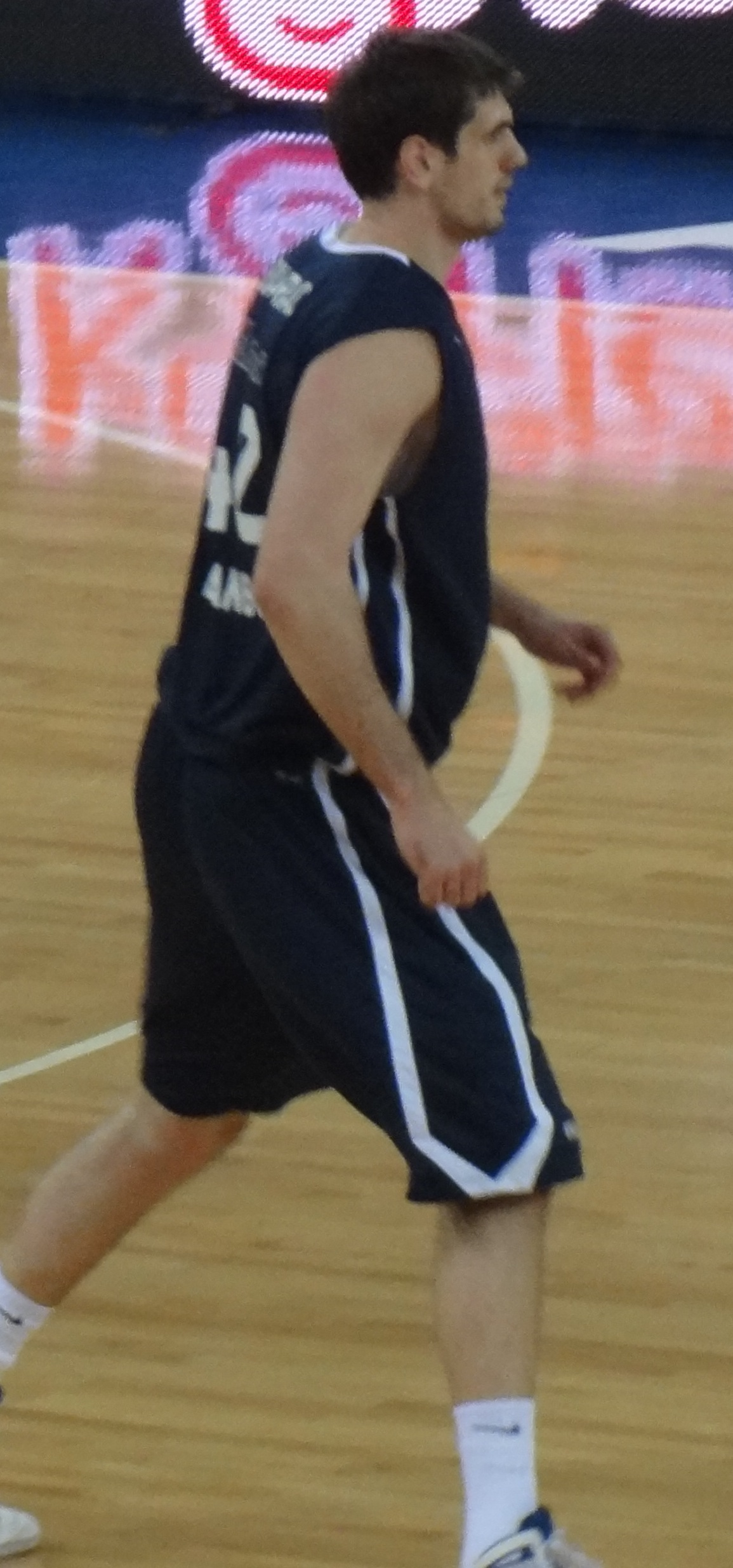 Stanko playing against GS